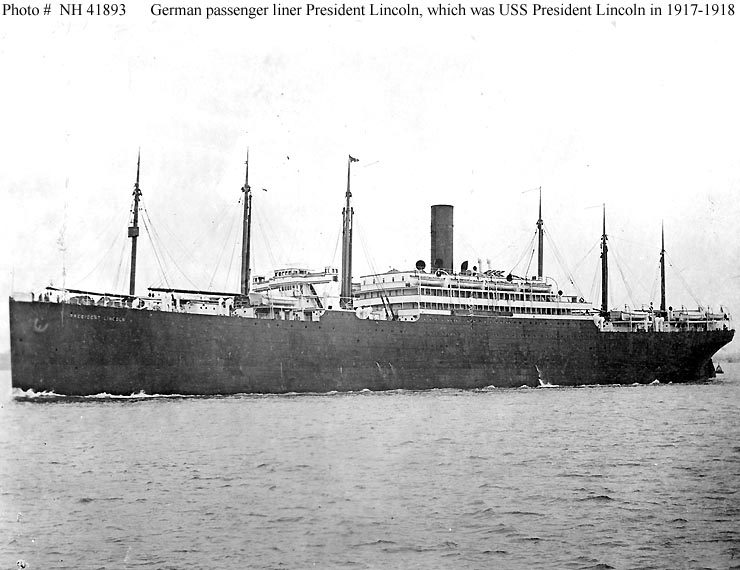 S.S. President Lincoln (German Passenger Liner, 1907) Underway, prior to World War I. This ship was USS President Lincoln in 1917-1918.